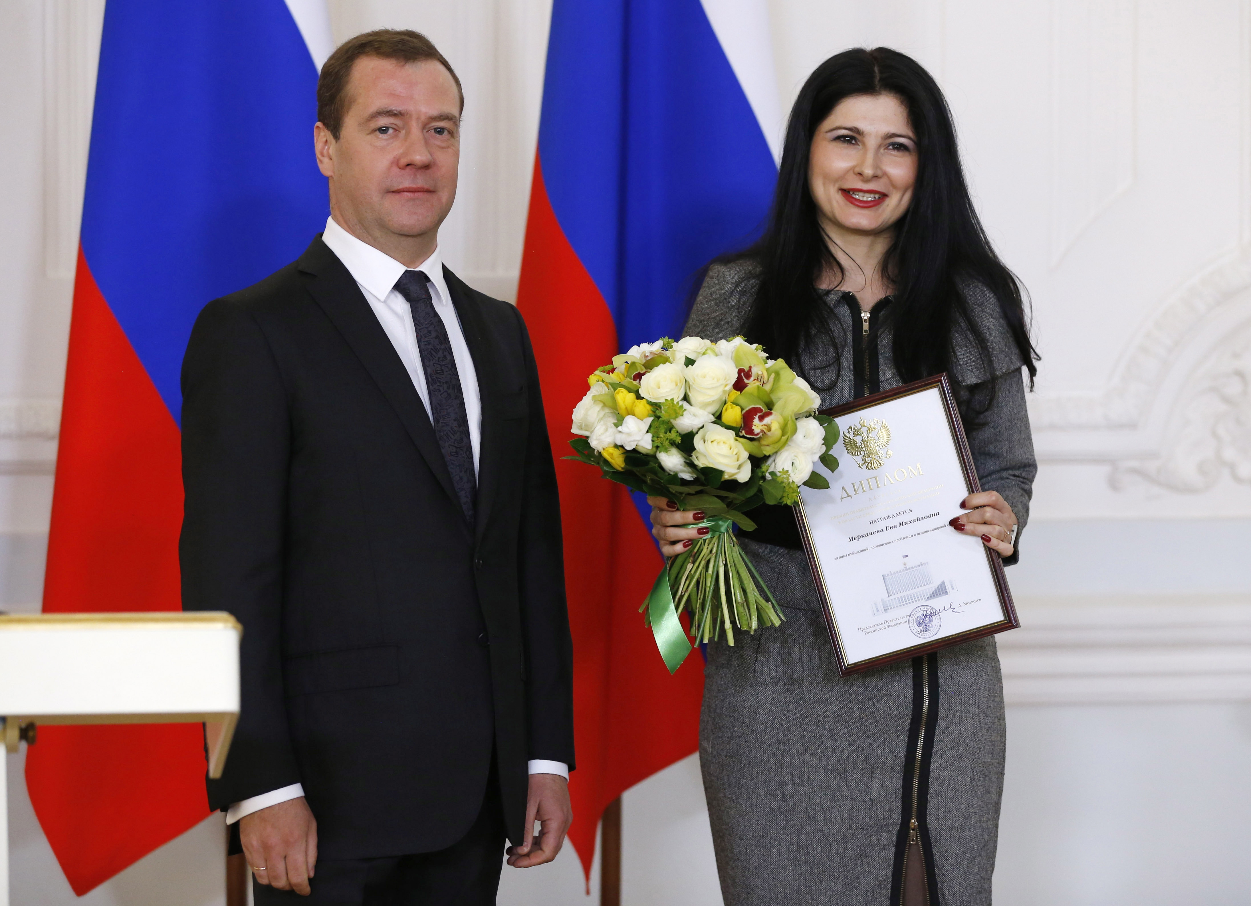 Dmitry Medvedev with Eve Merkacheva